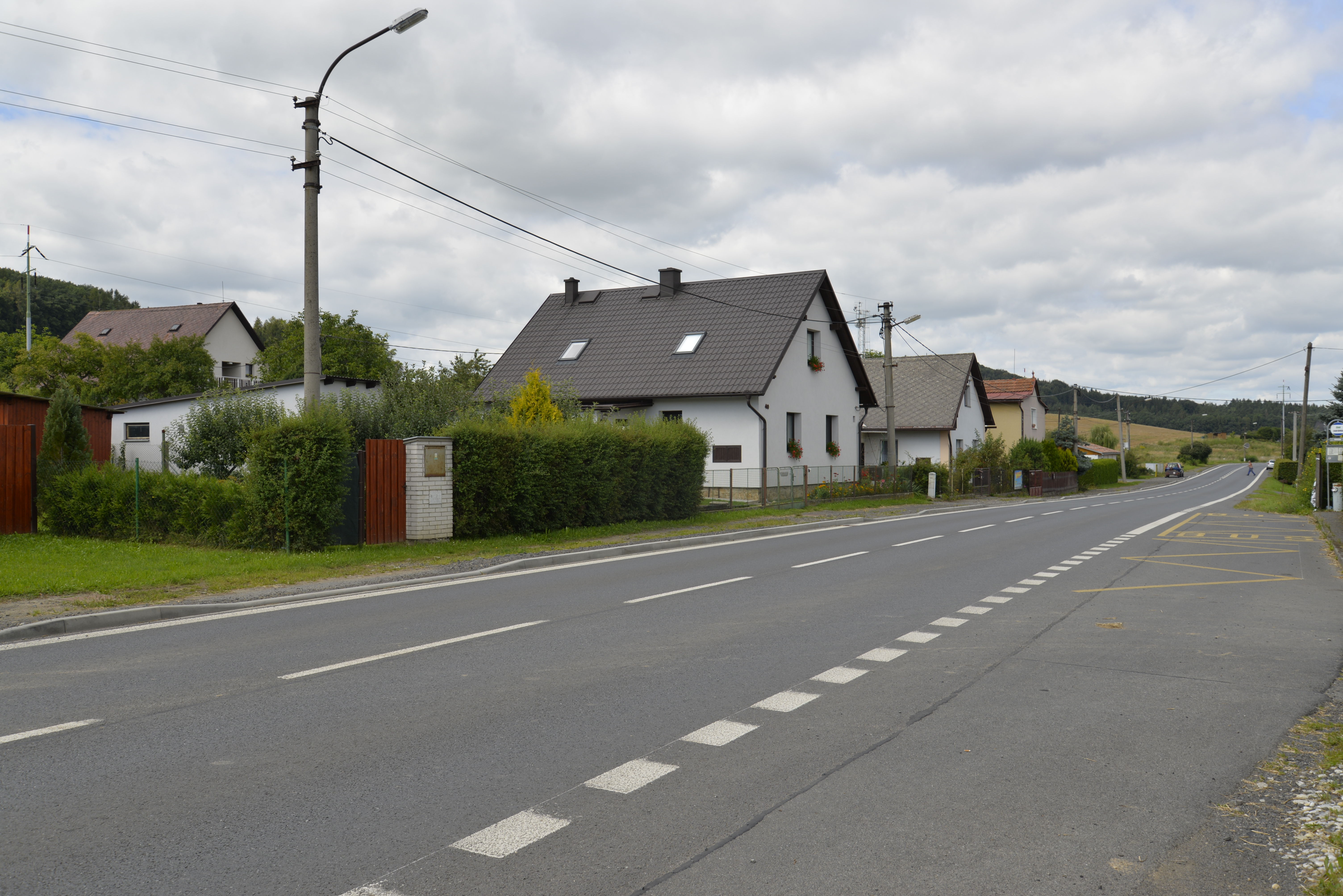 Malá Víska is part of municipality Vrhaveč in Klatovy District